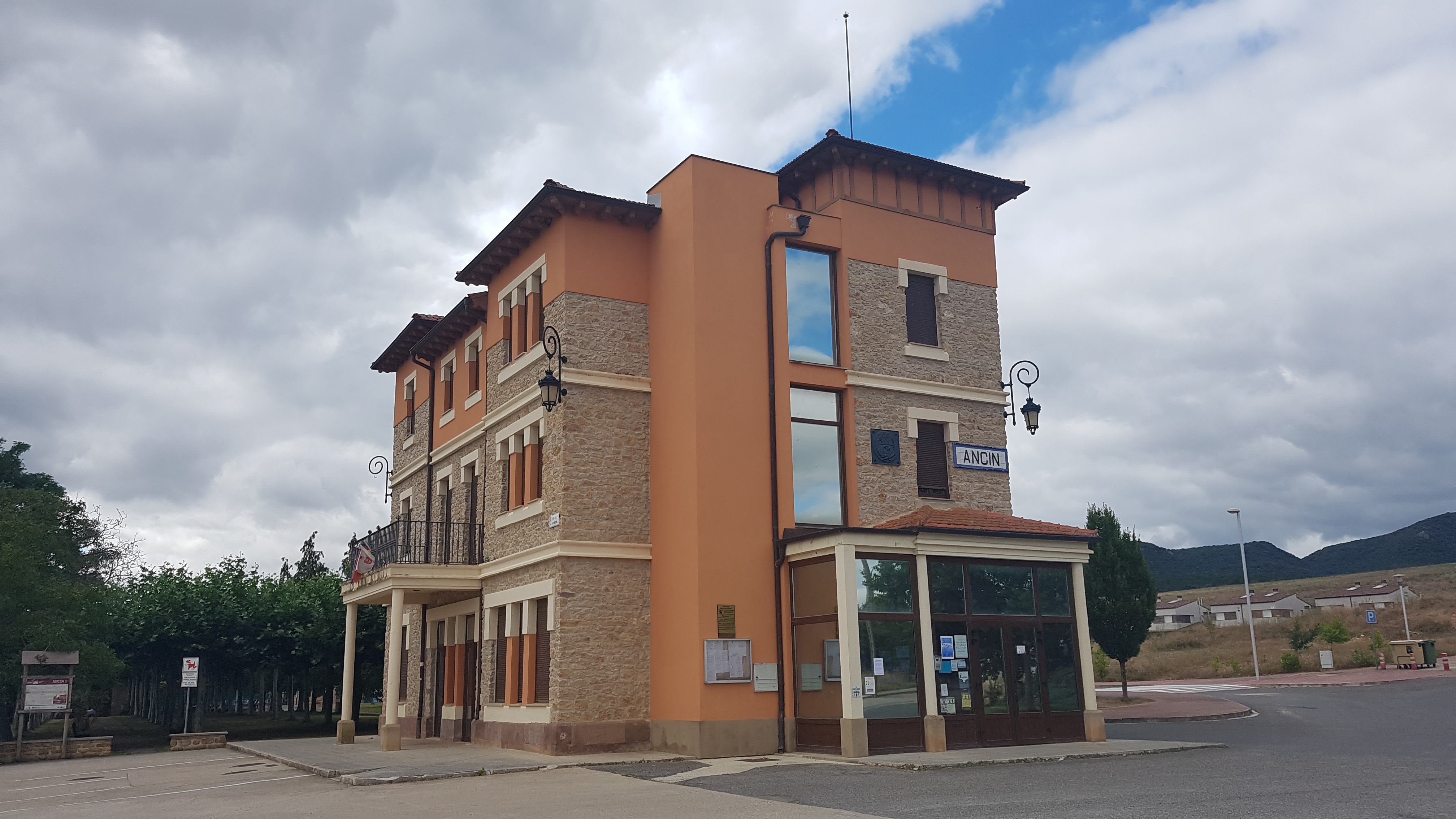 Town Hall of Antzin. Located on the former station of the Anglo-Vasco-Navarro railway.